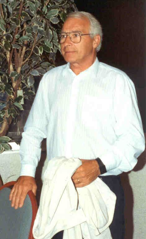 Ignace Vandecasteele – chess study composer, ARVES-meeting on the occasion of the PCCC-session 1991 in Rotterdam